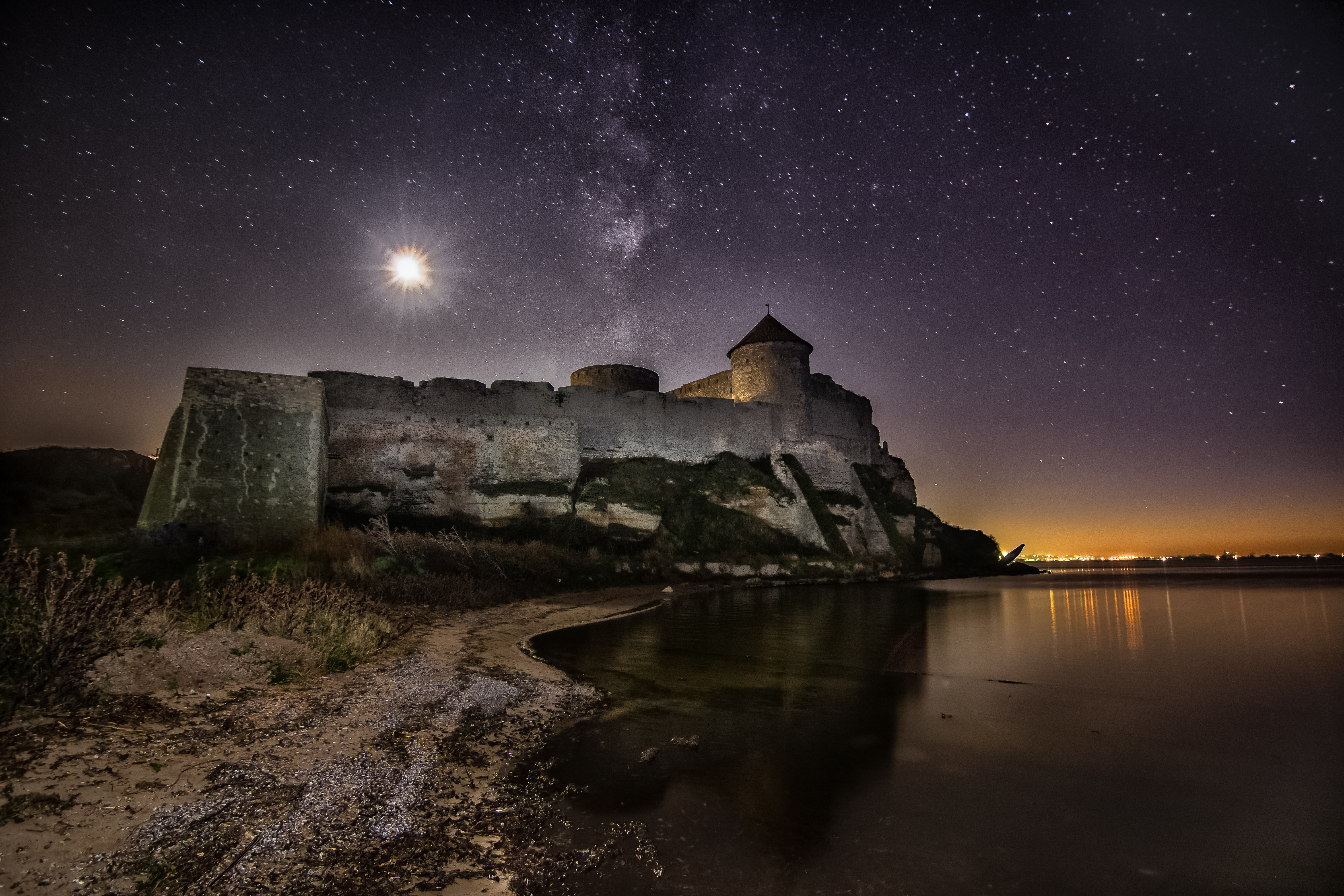 Akkerman Fortress of the XV century (complex of architecture monuments of national significance №560) at night. View of the estuary. Odessa region. Bilhorod-DnistrovskyiTürkçe: Akkerman Kalesi